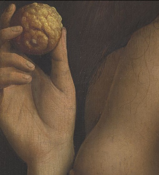 Detail of Eve from the far right hand panel of the upper half of the inner portion of the Ghen altarpiece.